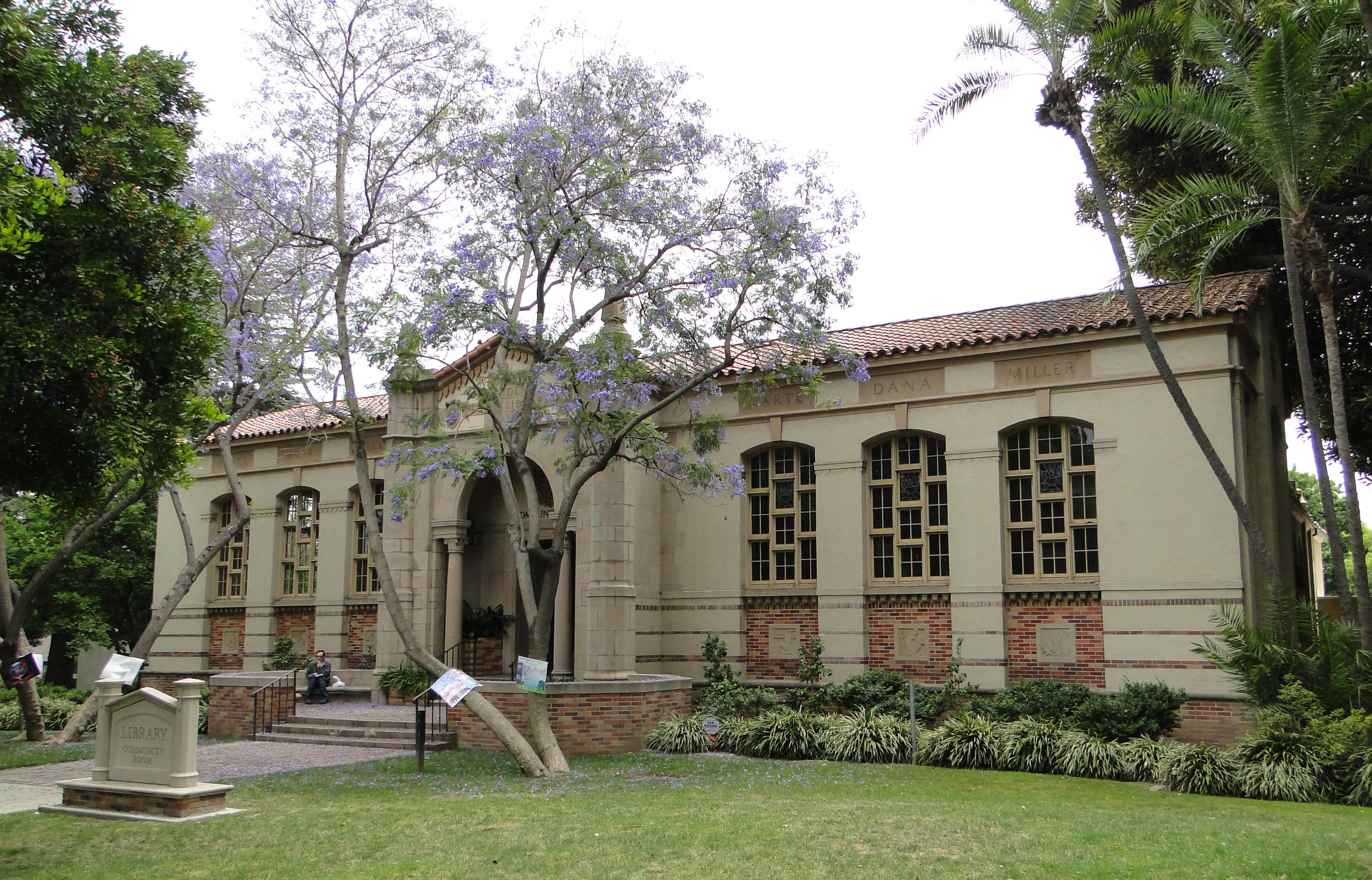 South Pasadena Public Library, 1100 Oxley Street South Pasadena CA 91030.